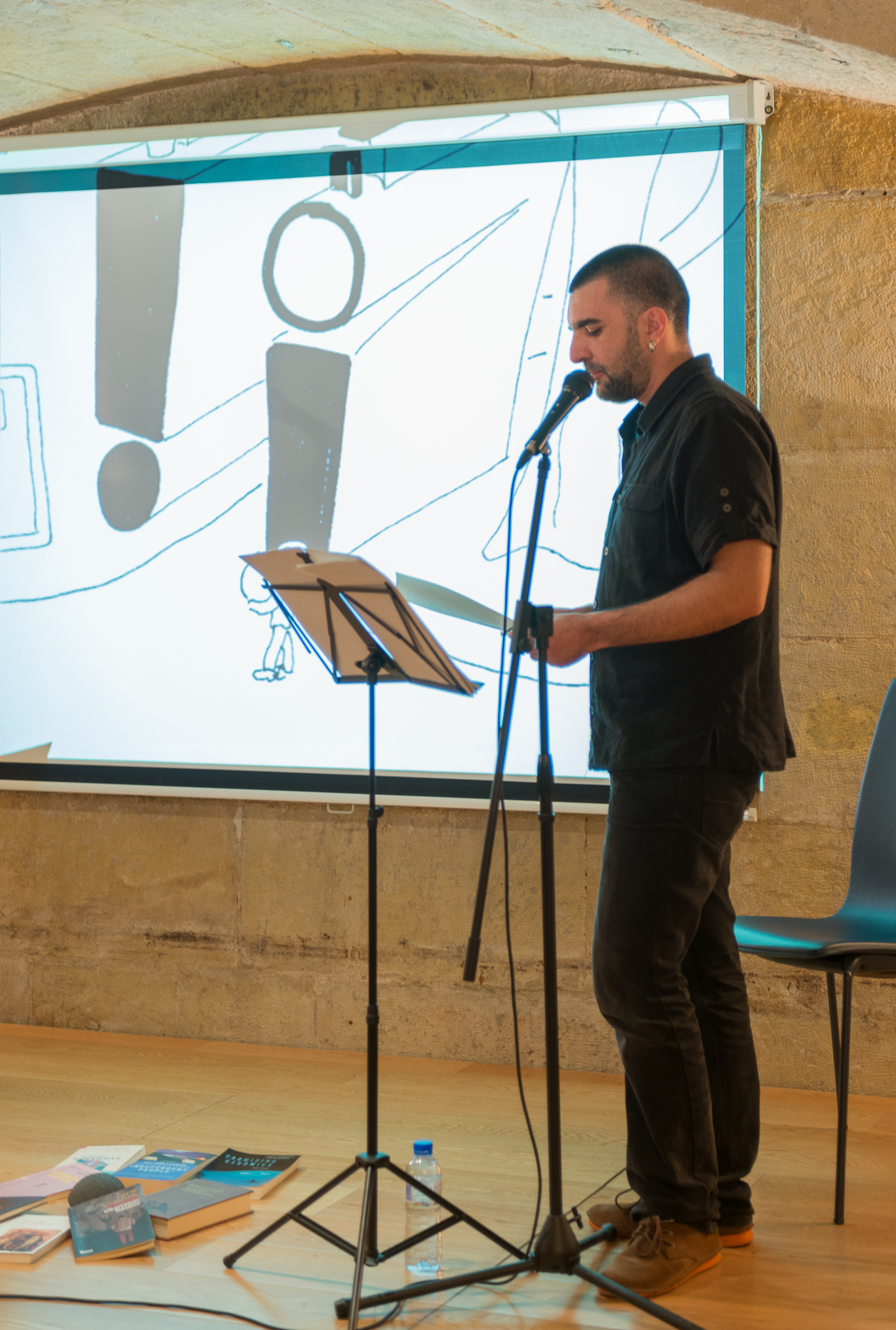 Oier Guillan at Literaktumen in 2015